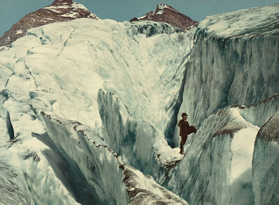 Crevasse formation in Illecillewaet Glacier, Selkirk Mountains (LOC) Detroit Photographic Co. c1902. 1 photomechanical print : photochrom, color. Notes: Copyright 1902 by Detroit Photographic Co. Title from item. Title on inventory list: Crevasse formation in Illecillewaet Glacier, Selkirk Mtns. Caption for similar image (LC-D4-14653) lists title as: Crevasse formation in Illecillewaet Glacier, Selkirk Mountains, B.C. Detroit Publishing Co. no. "54069". Forms part of: Photochrom Print Collection. Subjects: Mountains. Glaciers. Canada--British Columbia--Selkirk Range. Format: Photochrom prints--Color. Repository: Library of Congress, Prints and Photographs Division, Washington, D.C. 20540 USA, More information about the Photochrom Print Collection is available at Persistent URL: Call Number: LOT 13923, no. 438 [item]